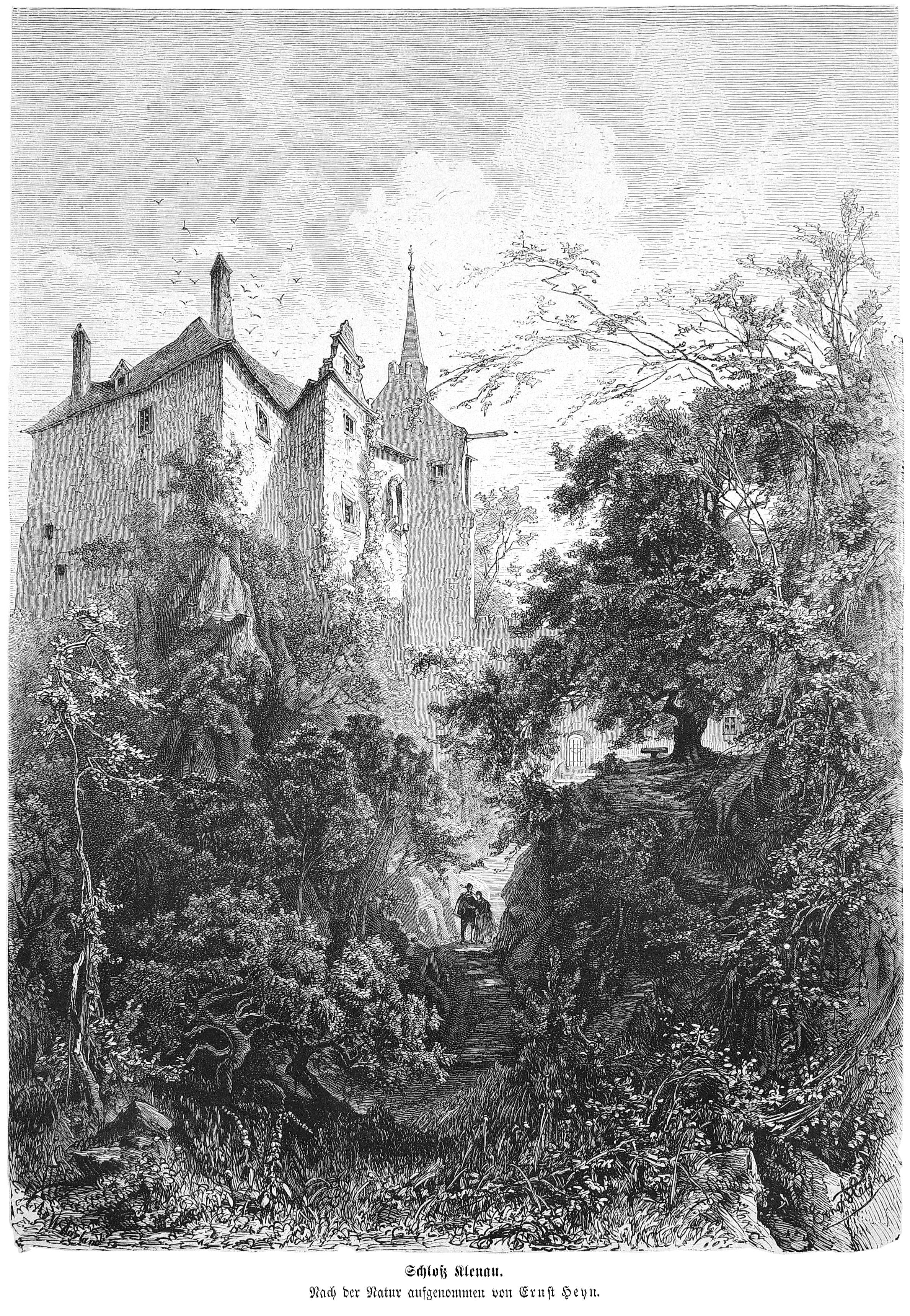 Image from page 329 of book Die Gartenlaube, 1871.